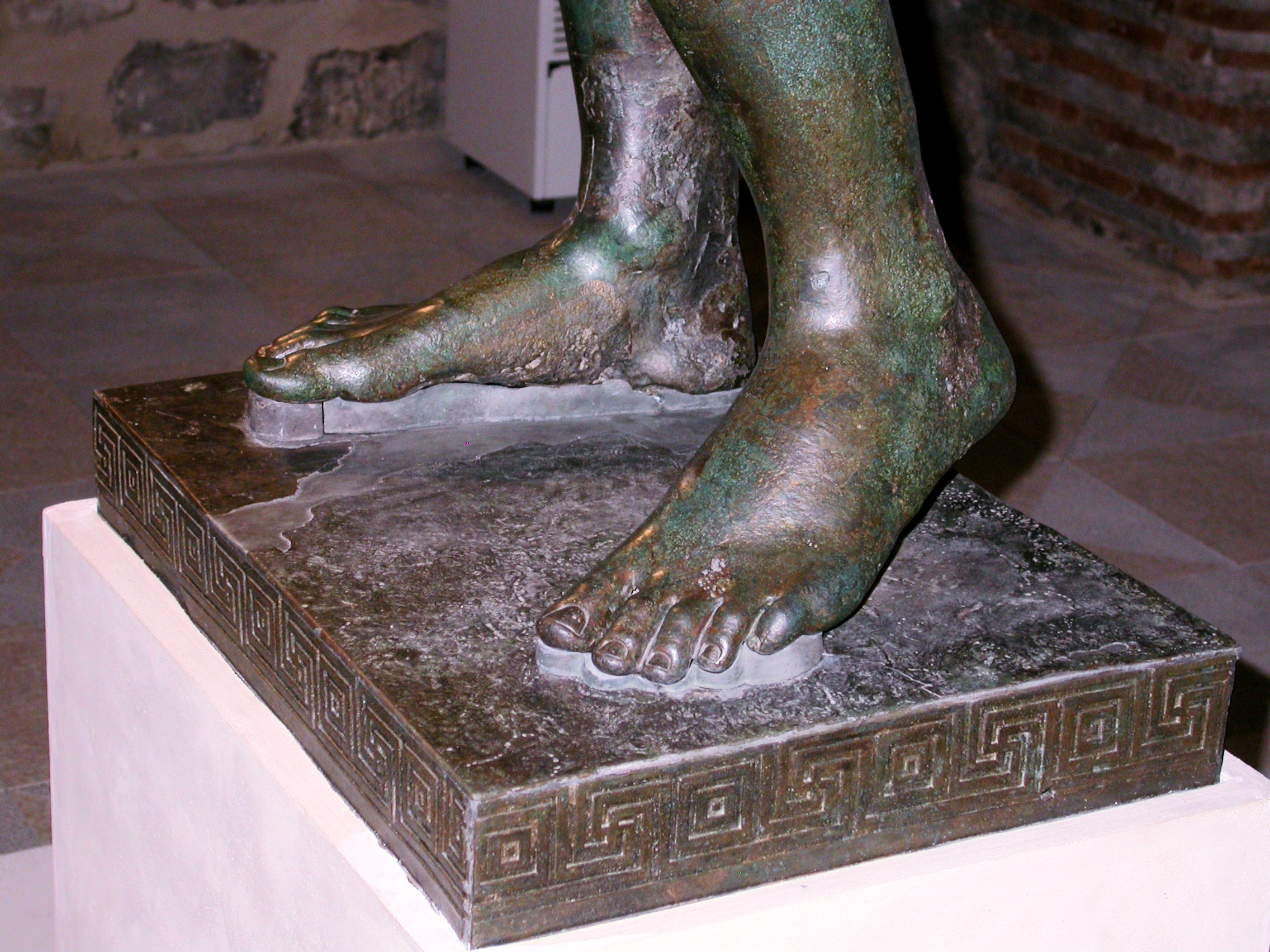 Croatian Apoxyomenos exhibited in Split